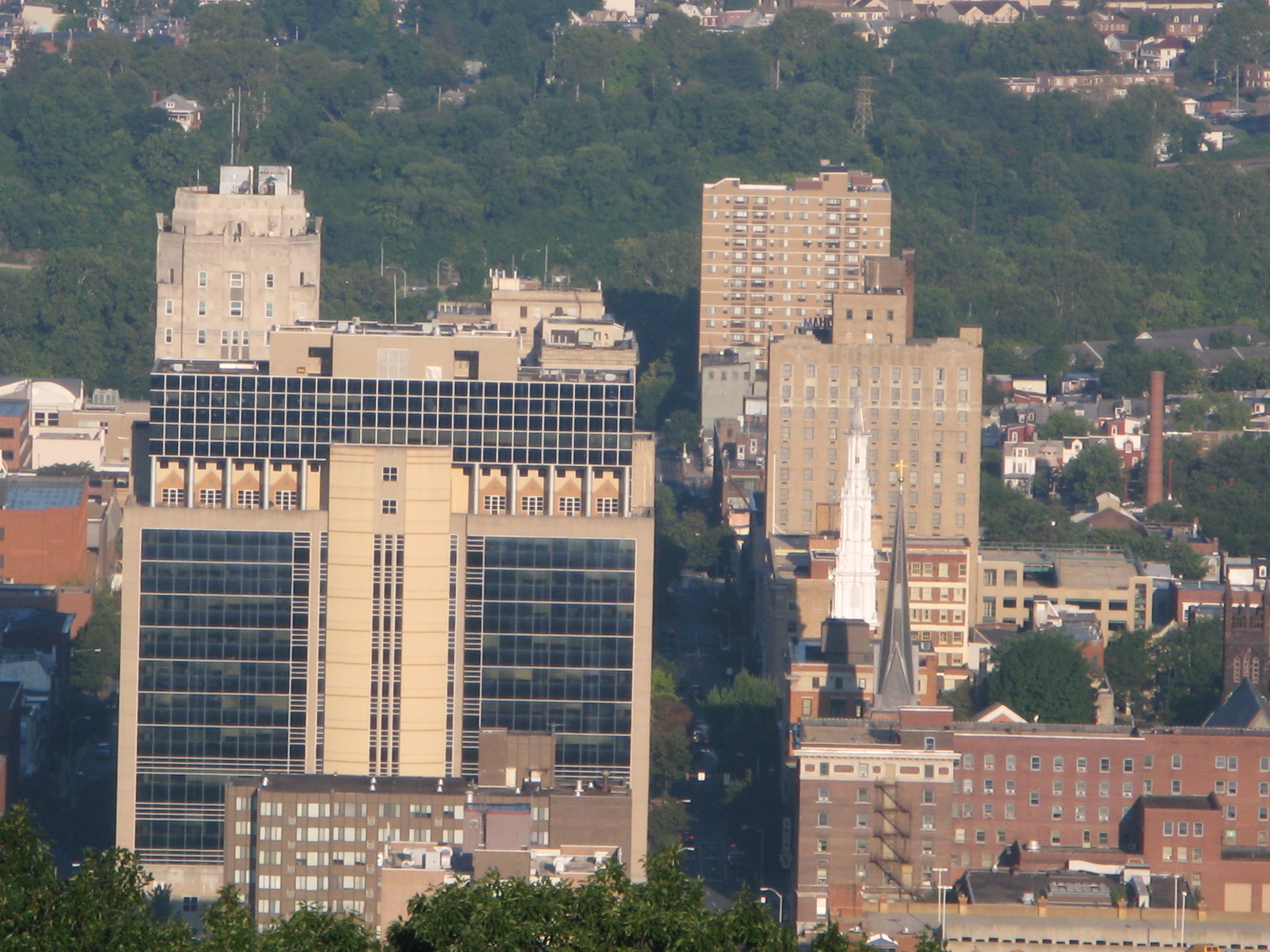 Reading's skyline (Reading, Pennsylvania, United States)